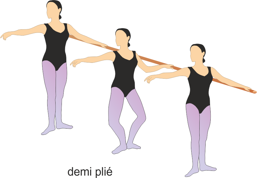 Ballet exercise: demi plié